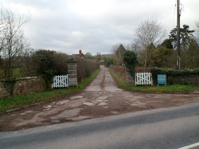 Entrance to Rockfield Studios near Monmouth